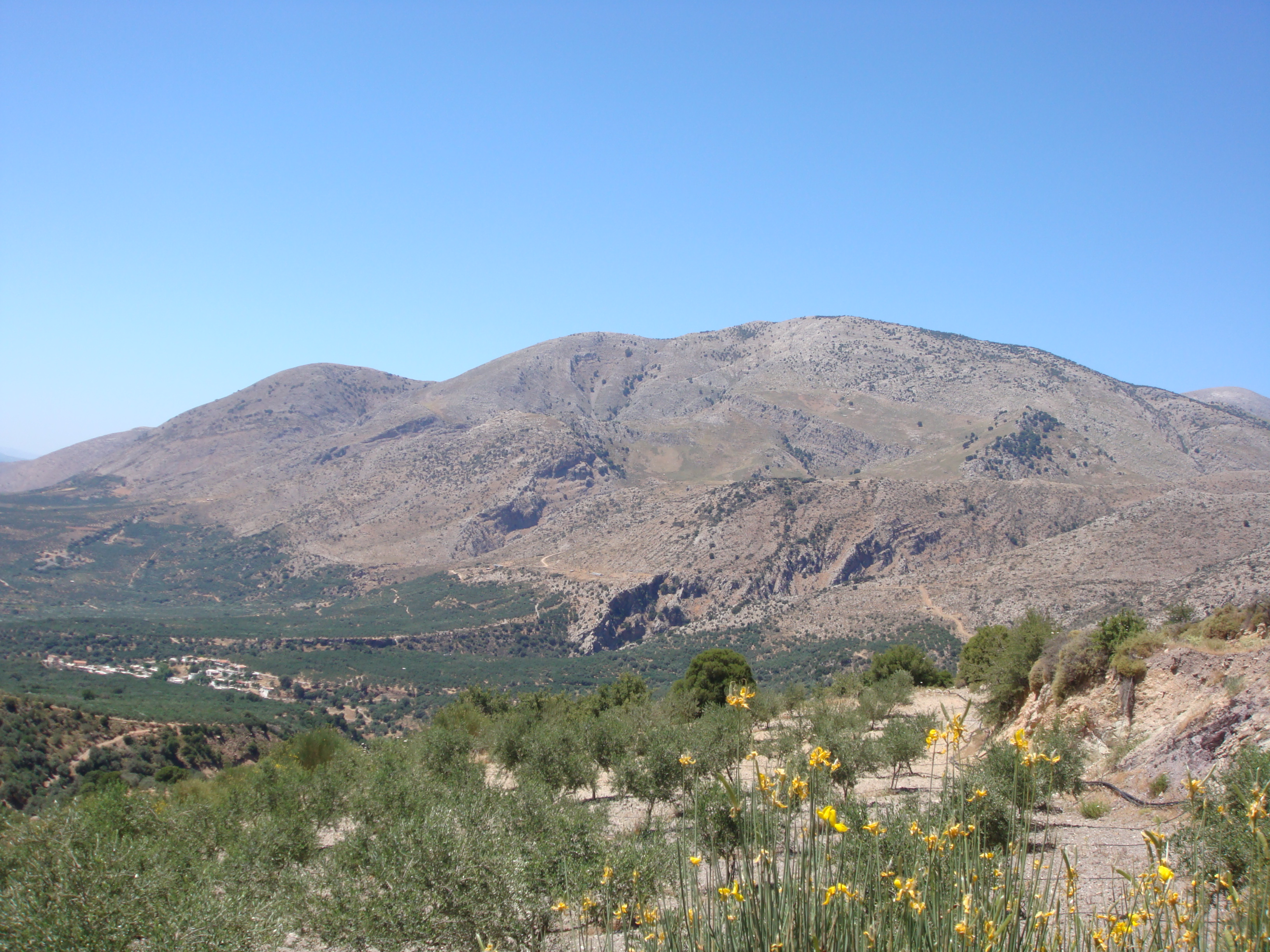 View from Katofygi, Iraklion prefecture.